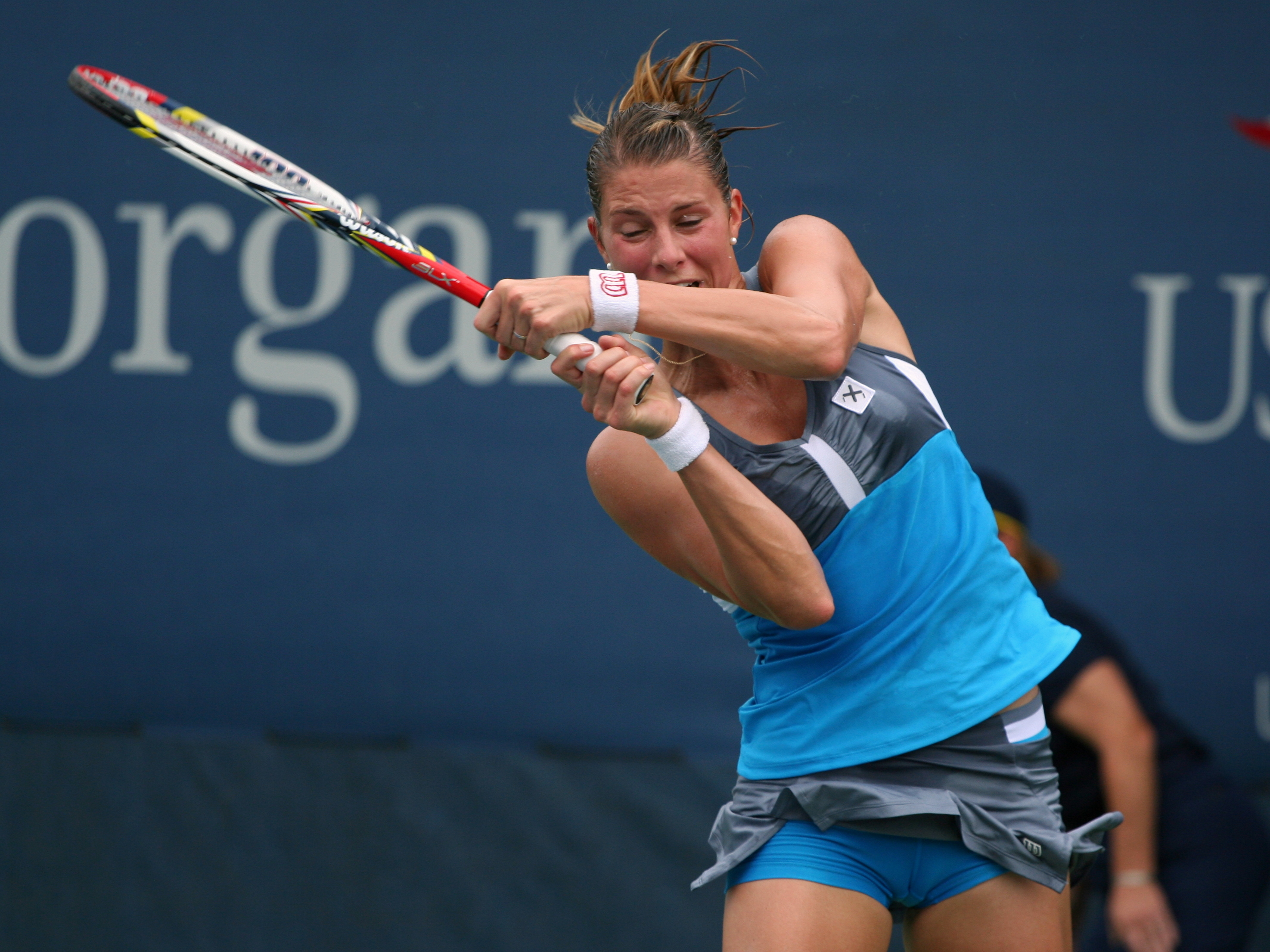 Mandy Minella at the 2012 US Open